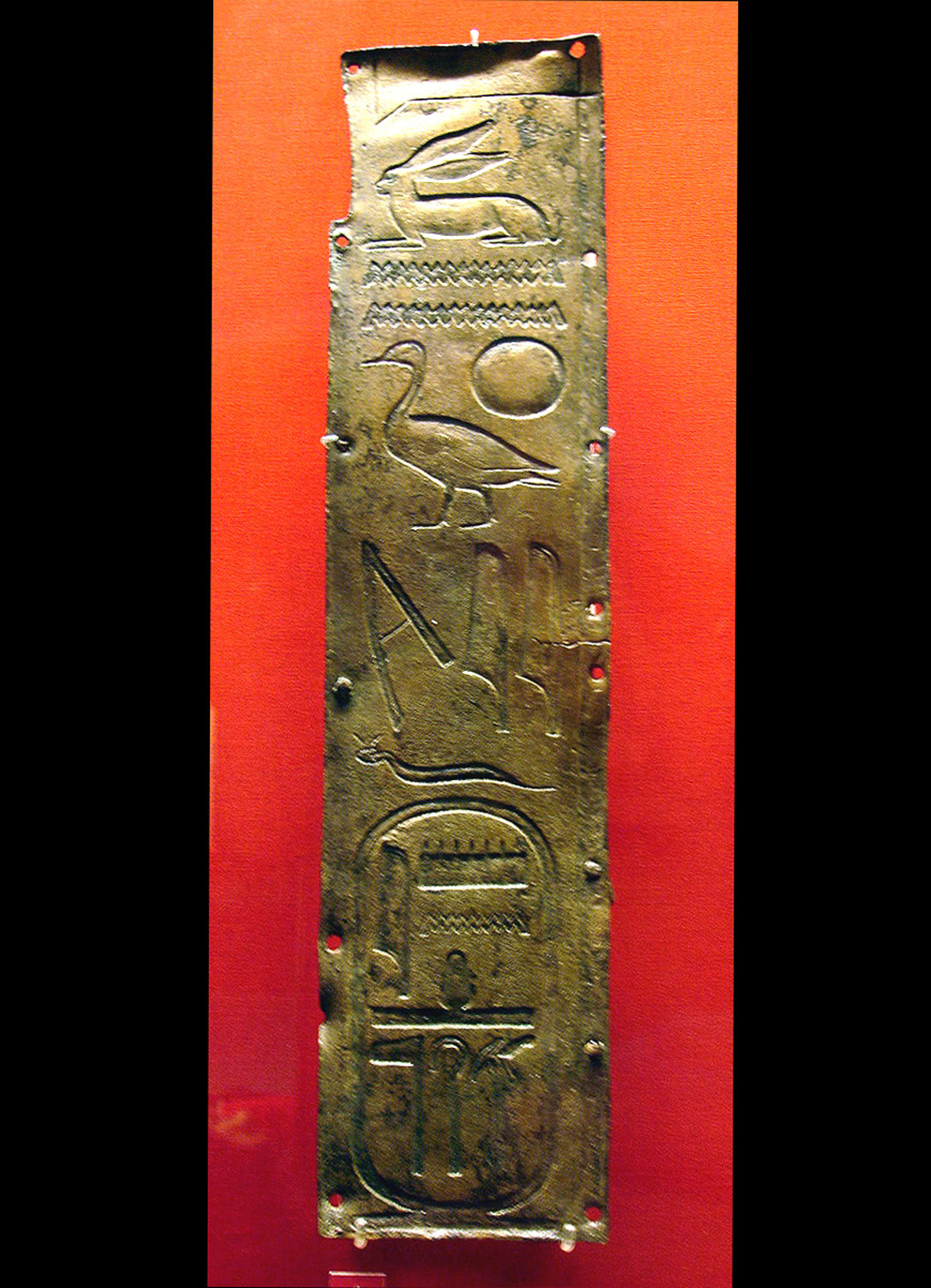 Bronze plate with the titulary of Amenhotep IV before he changed his name to Akhenaten. Height 38 cm, width 8.9 cm, thickness 0.3 cm, London. British Museum, EA 41643. The inscription reads: The foremost, son of Ra, his beloved, Amenhotep, divine ruler of Thebes.